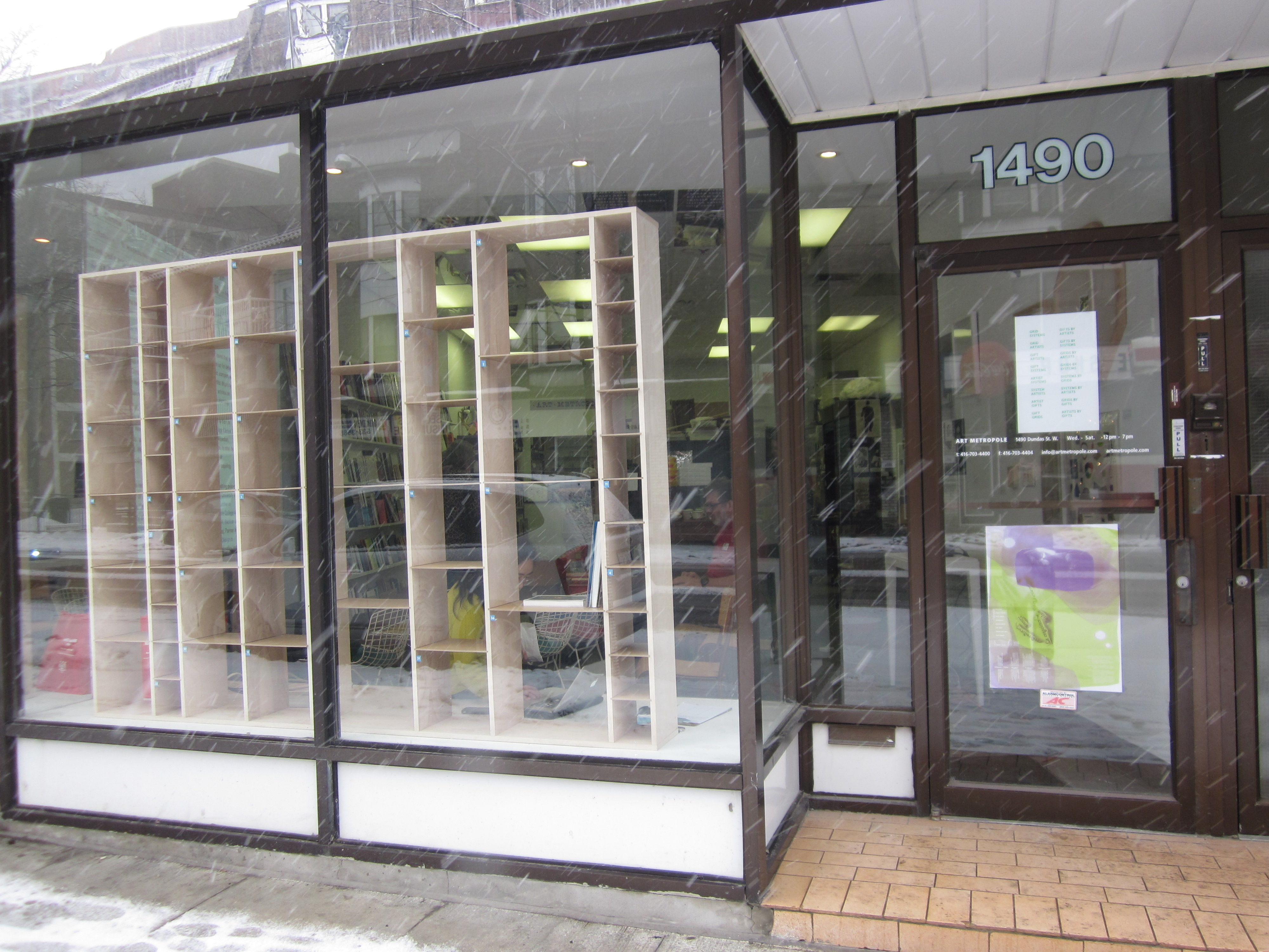 Art and Feminism edit-a-thon at Art Metropole